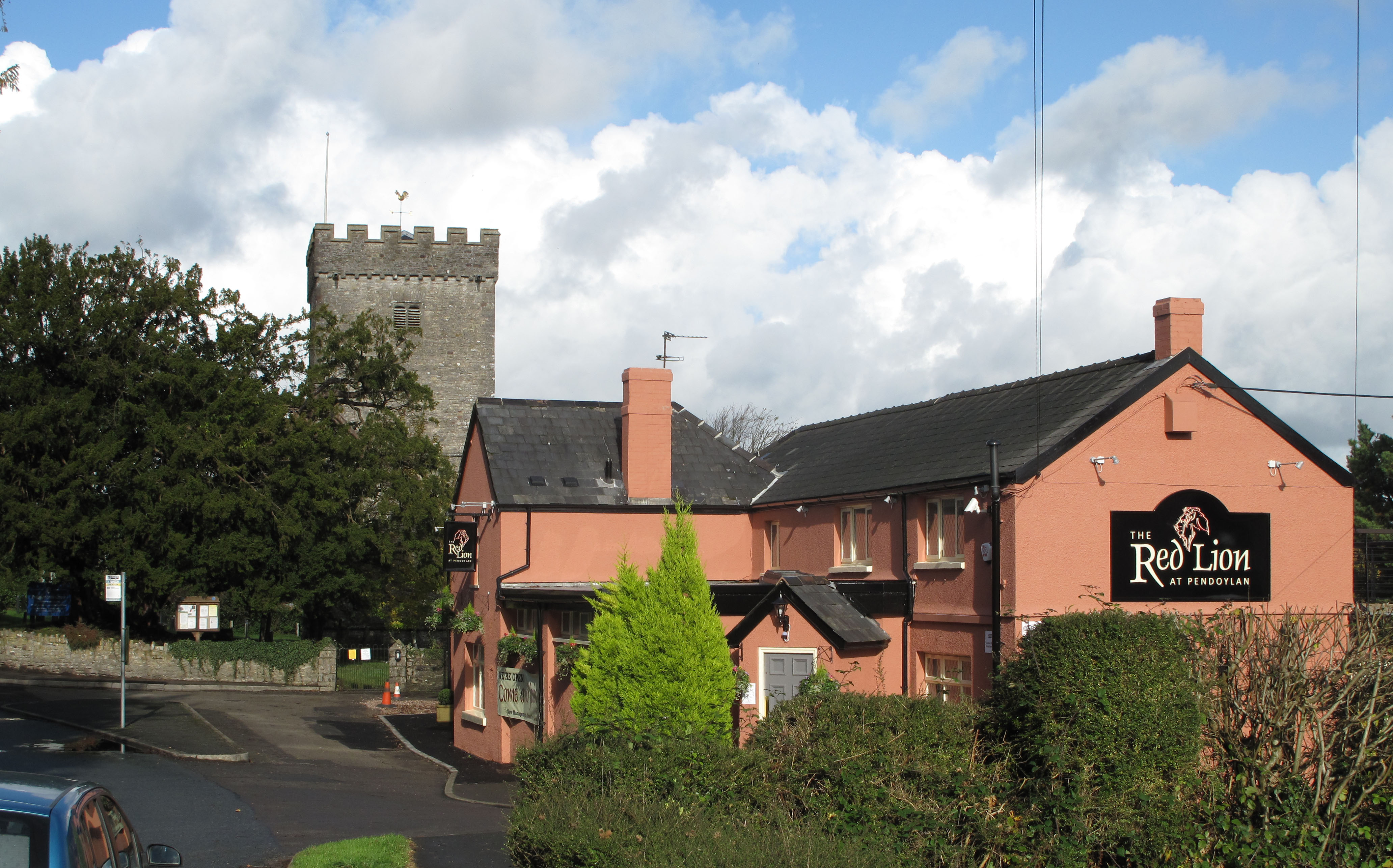 The church and pub in the centre of Pendoylan